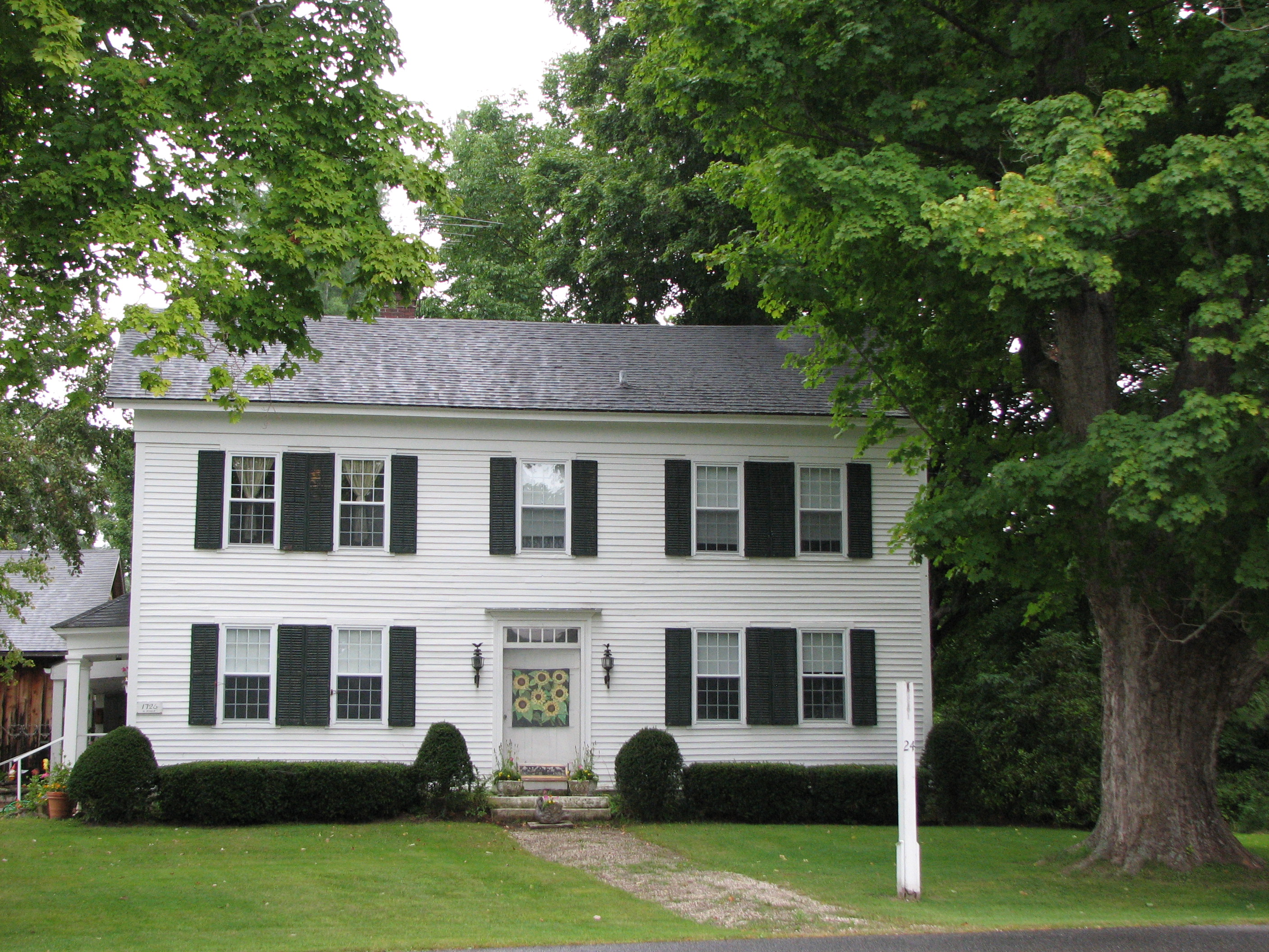 Sheffield Mass c1726 Noble House